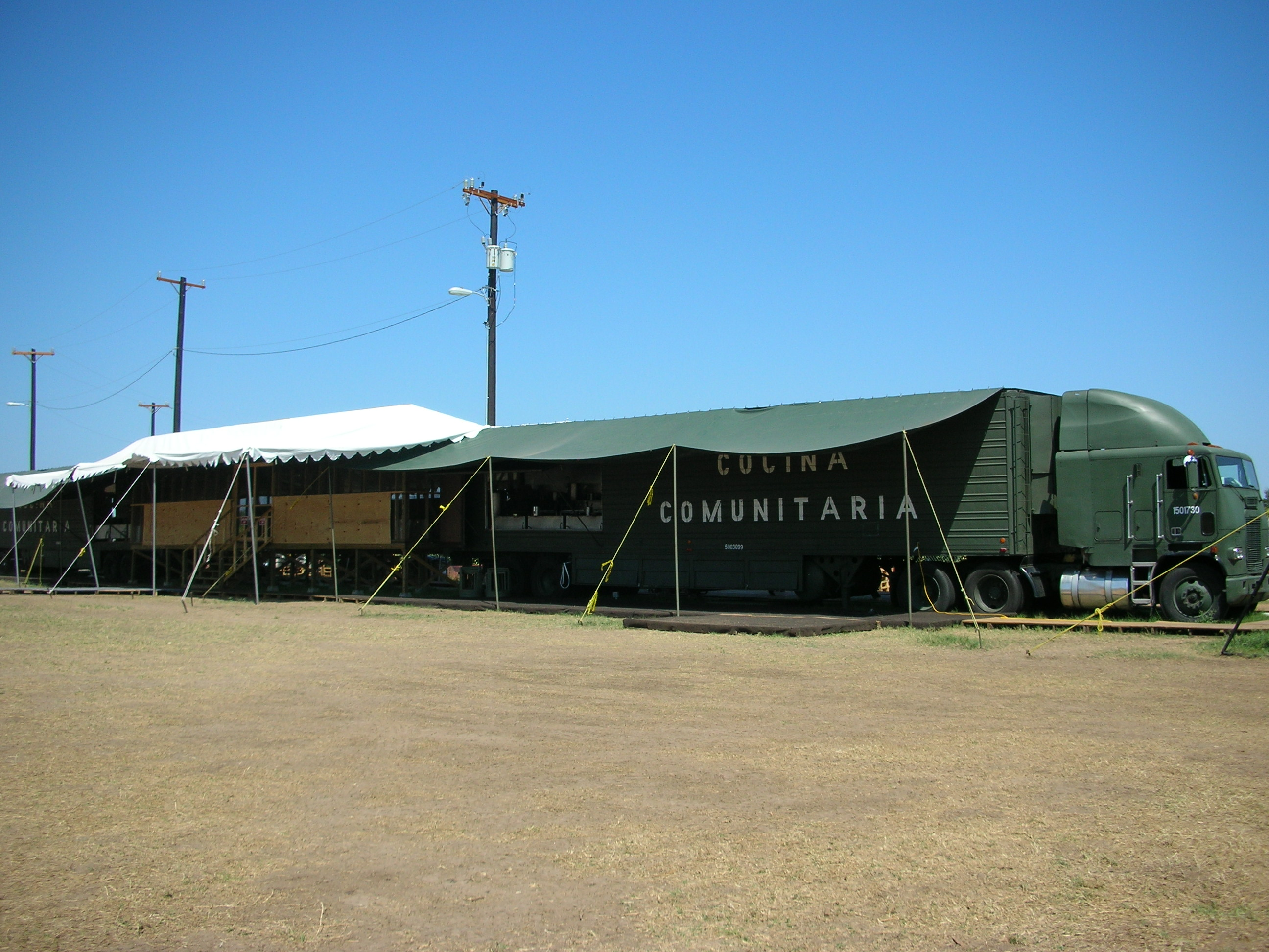 20050926174219 - Mexican army mobile kitchen in Texas